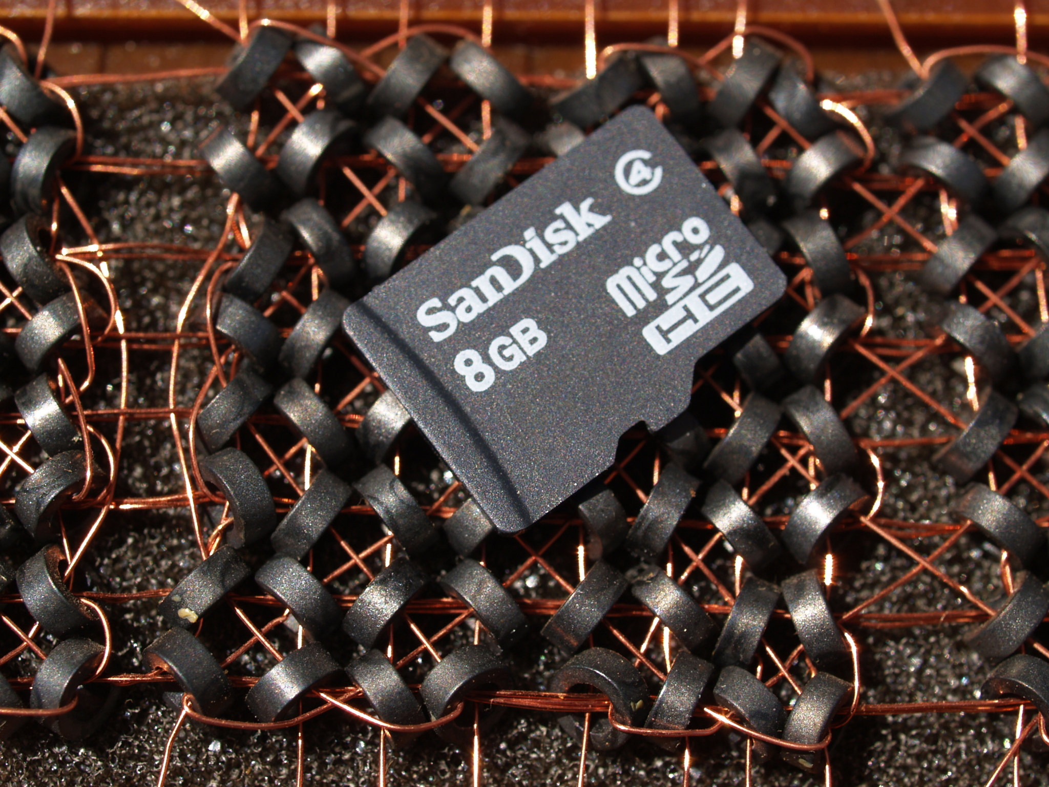 Approximately 55 year evolution of memory. 8-GB microSDHC card on top of 8-Bytes of magnetic-core memory (1 core is 1 bit).